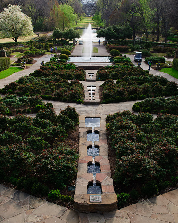 Seen at the Fort Worth Botanic Gardens